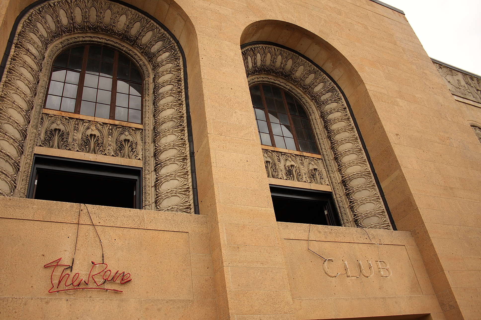 [The Rave / Eagles Club in Milwaukee, US.